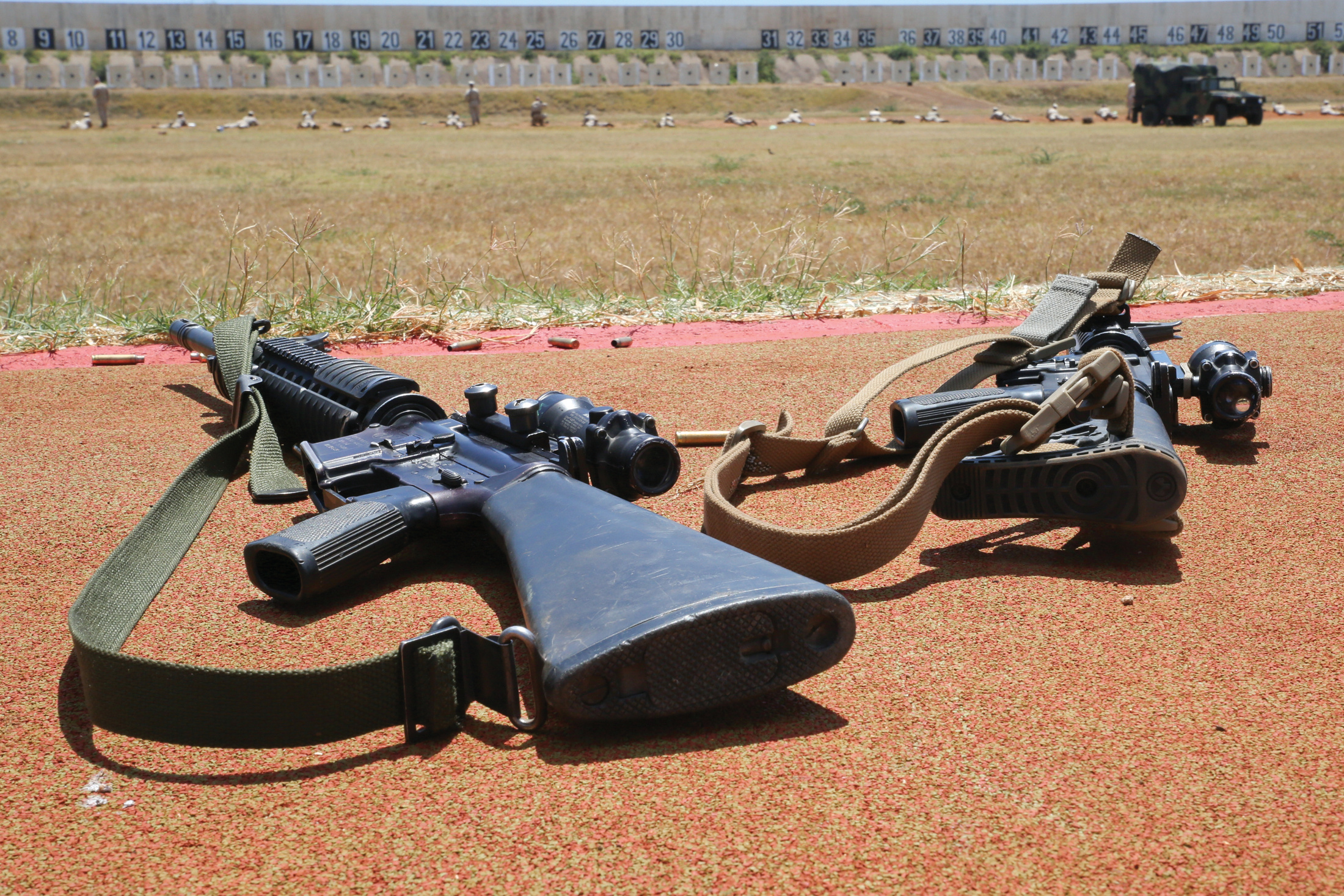 The M16A4 service rifle, donning the web sling, lies next to an M4 carbine rifle, donning the vigorous combat application sling, during annual rifle training at Pu'uloa Range Training Facility, March 23, 2015. All units are expected to transition from the web sling to either the VCAS sling, or the three-point sling by July 1. (U.S. Marine Corps photo by Lance Cpl. Adam O. Korolev/Released)